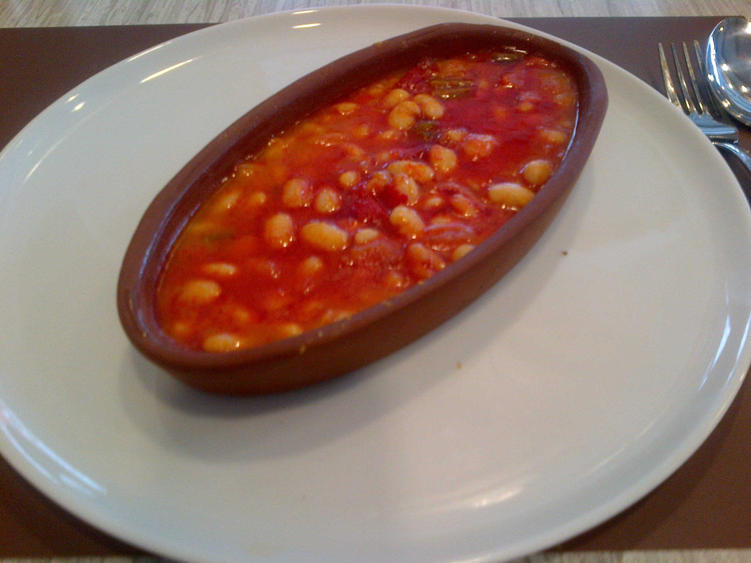 Dry white beans, Turkish style, "kuru fasulye".